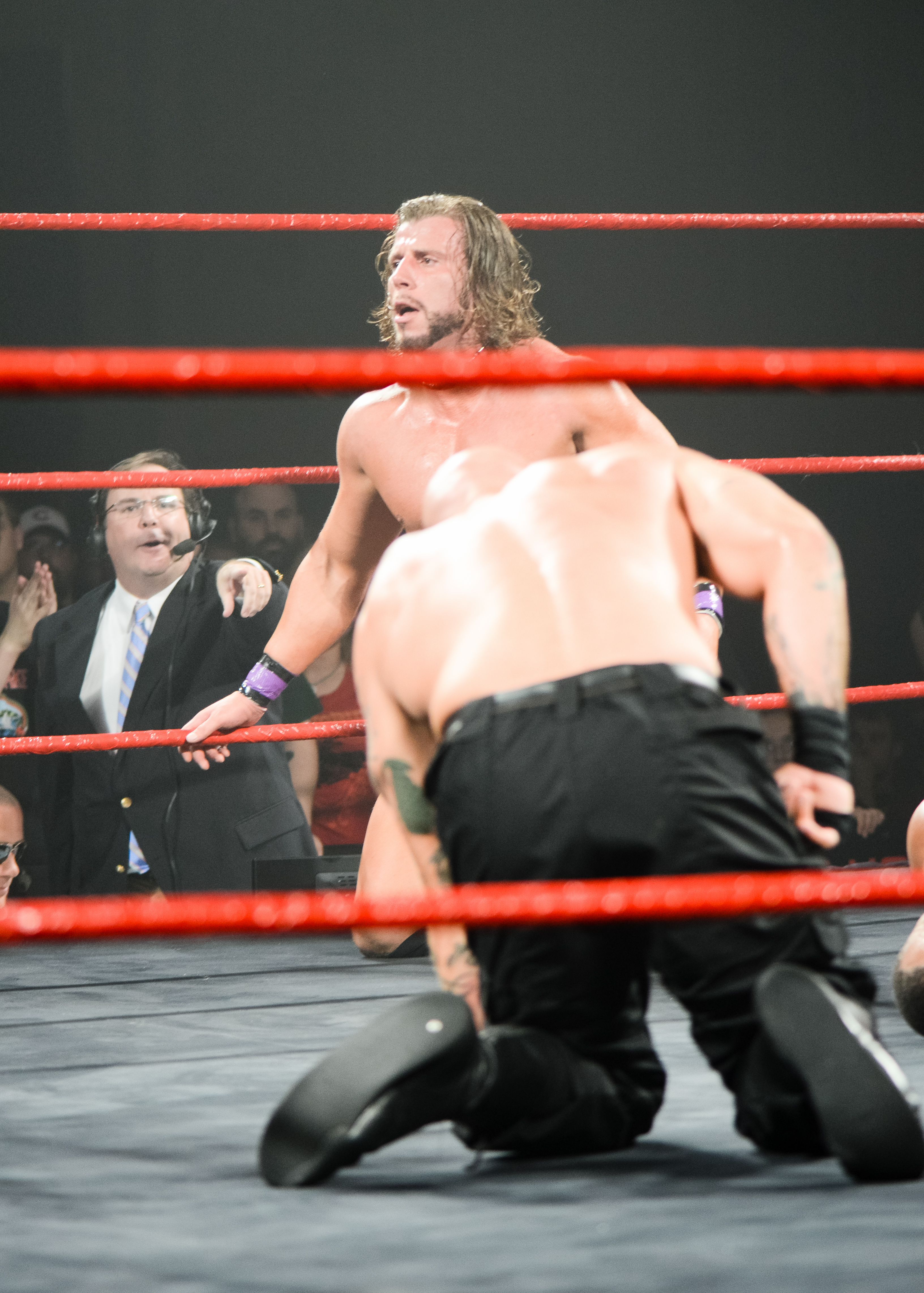 Rhett Titus in the ring in 2011 at a Ring of Honor show.